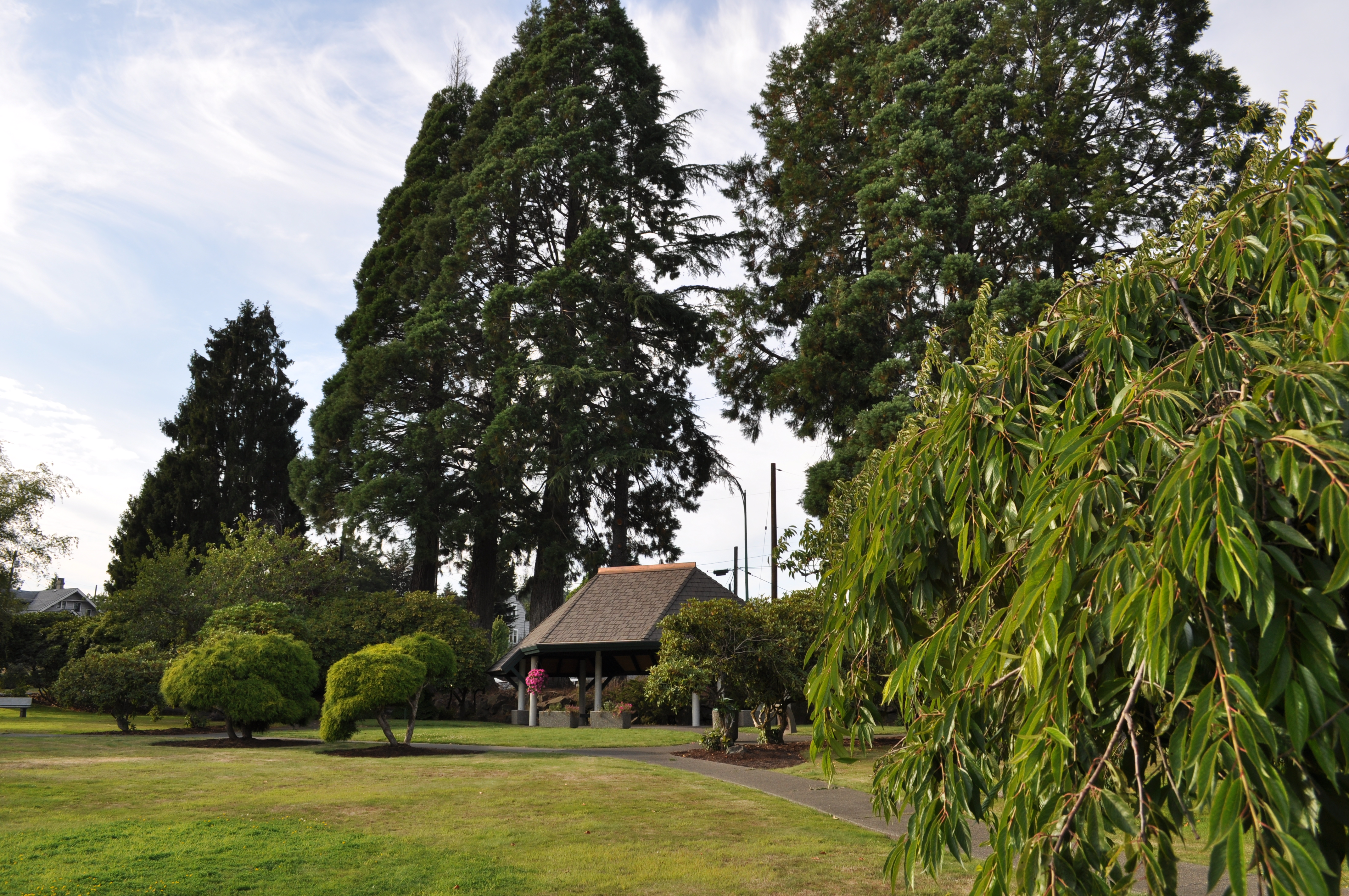 Fleet Park, Montesano, Washington.